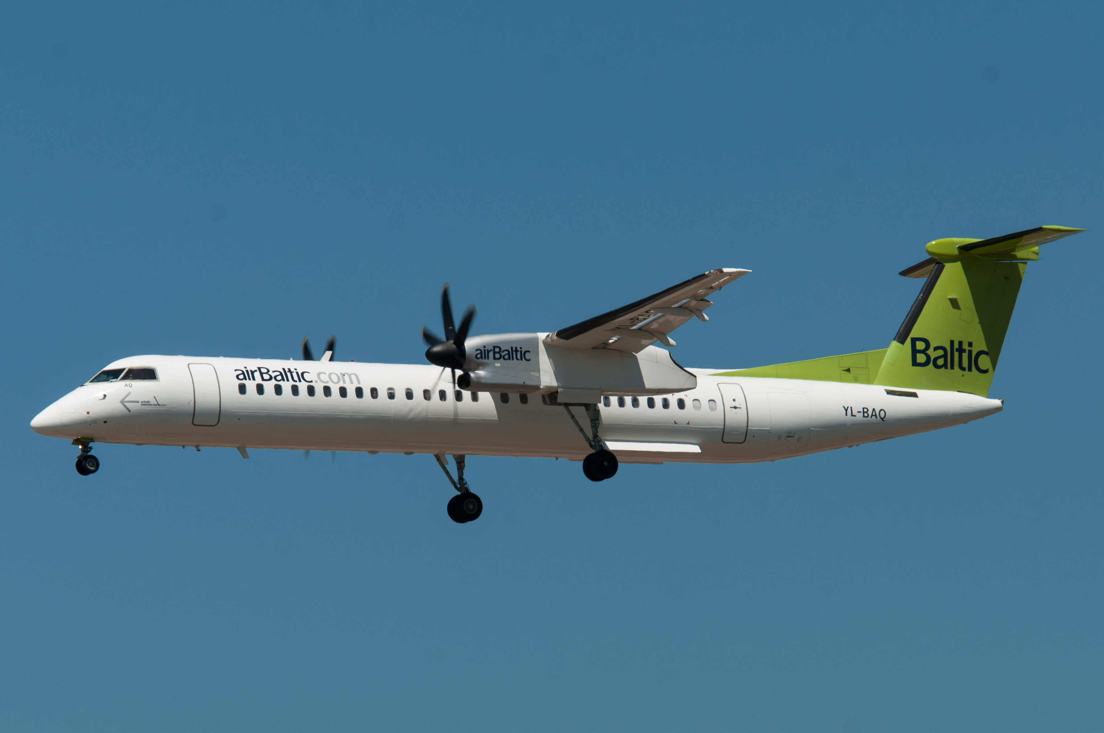 Frankfurt, July 2015